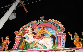 Nalli singamadaiayyanar temple நள்ளி சிங்கமடை அய்யனார் கோயில்